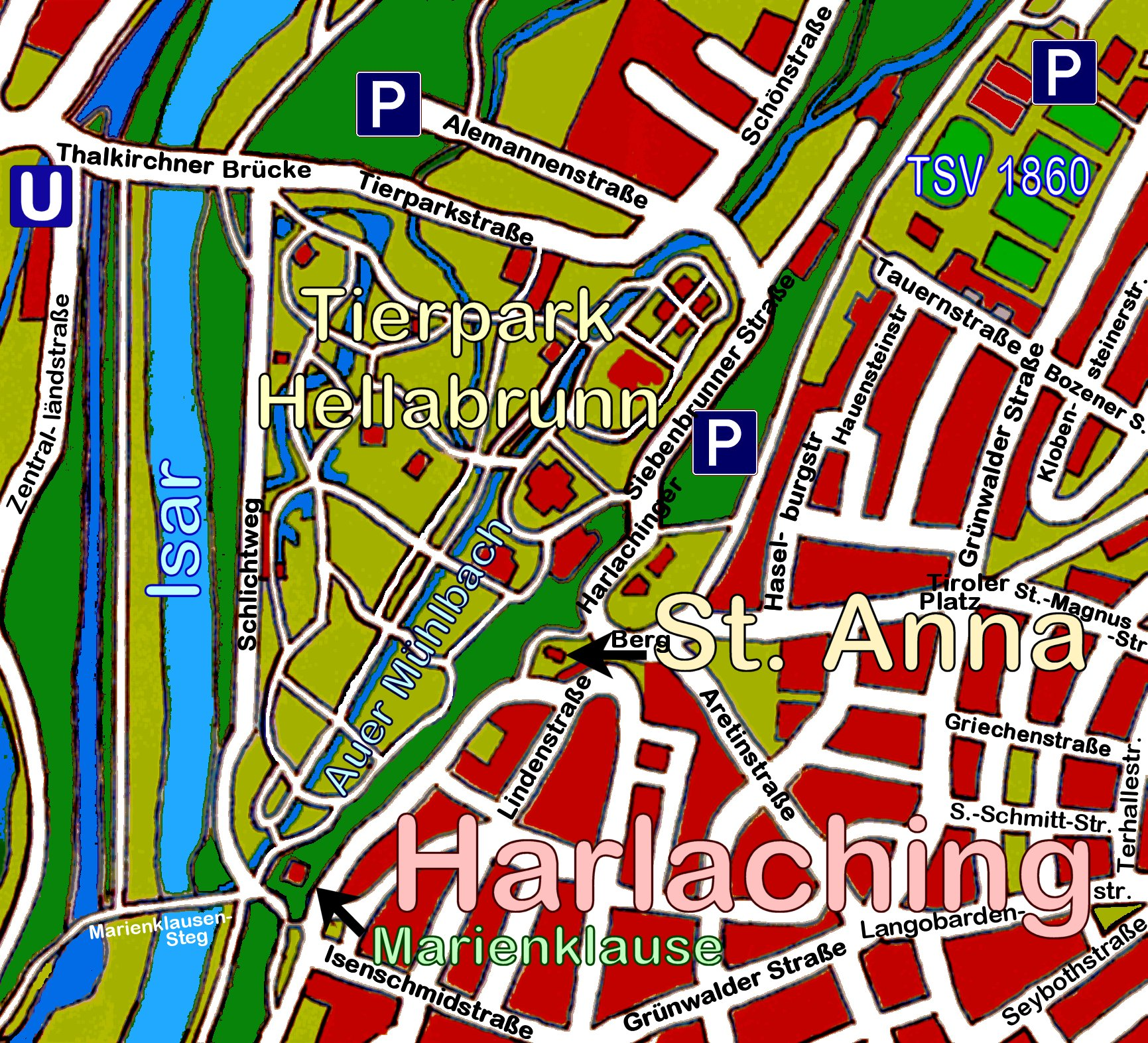 Map of Harlaching with Church St. Anna, Tierpark Hellabrunn, River Isar, Underground-station Thalkirchen, parking-lots and streetnames